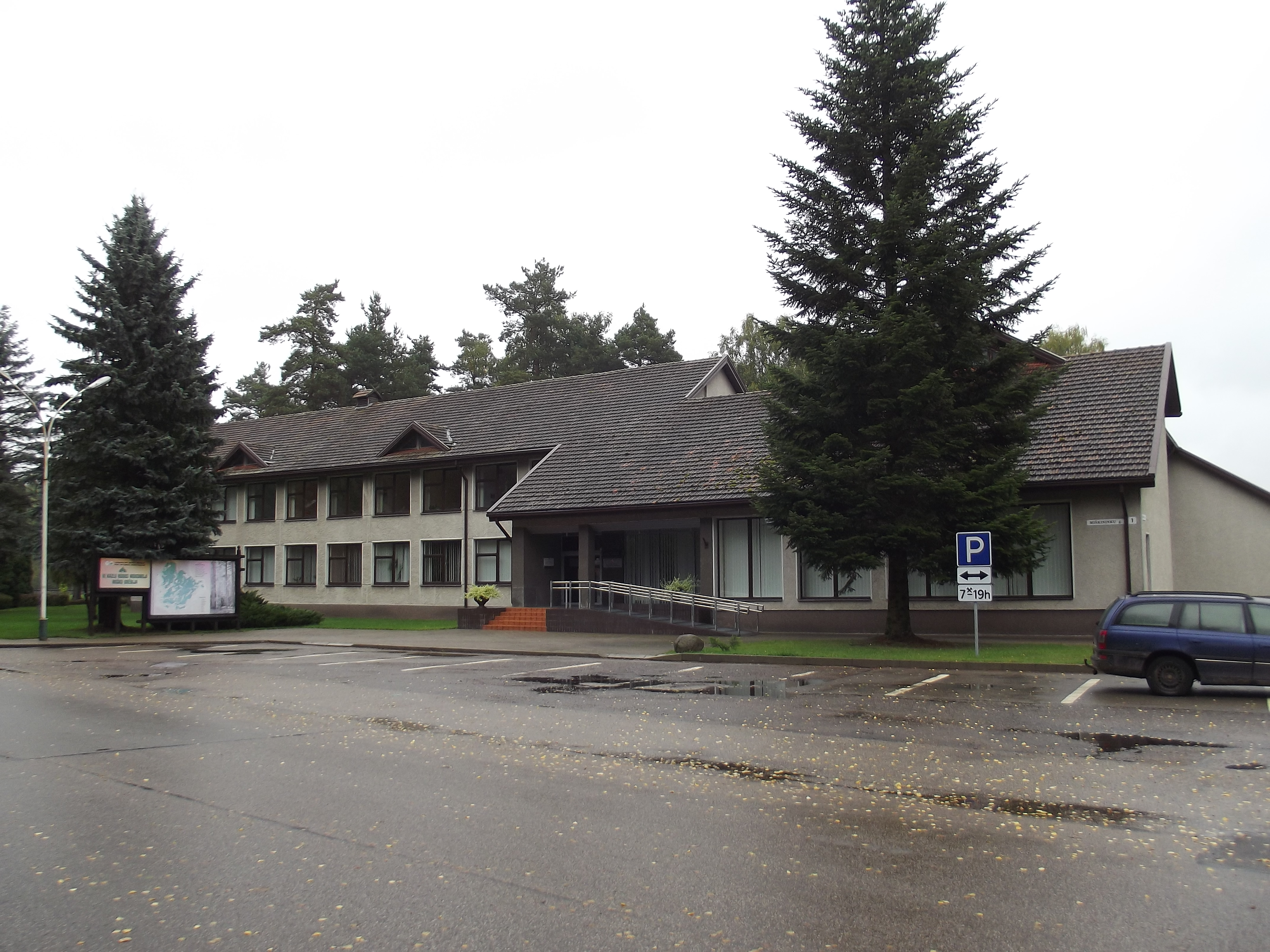 Kazlų Rūda Forest Enterprise, Lithuania